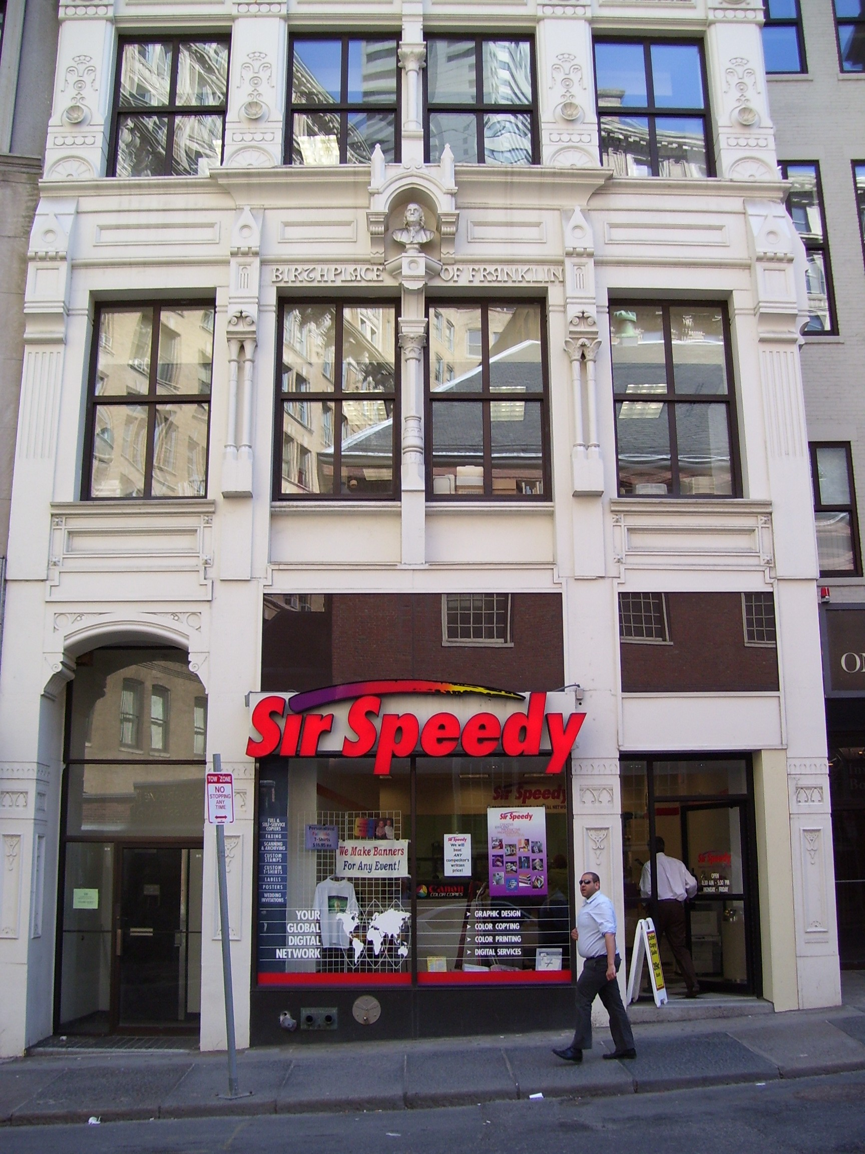 My photo of the Benjamin Franklin birthplace in Boston, MA in 2008.